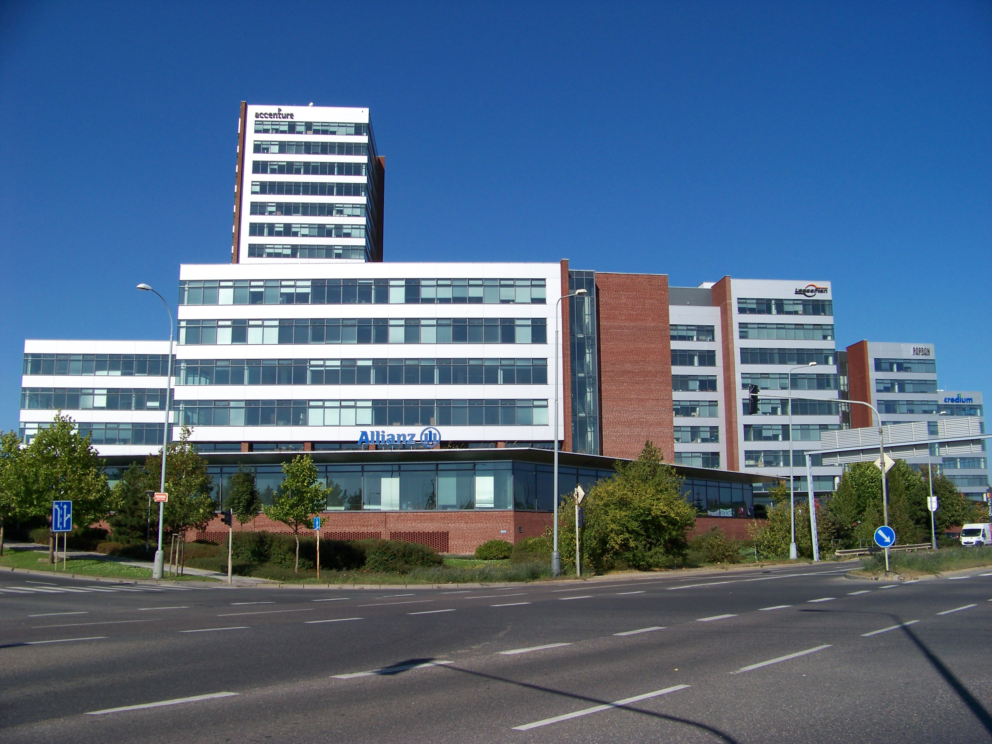 Prague-Stodůlky, the Czech Republic. Office Park Nové Butovice. - OpenStreetMap(Info)